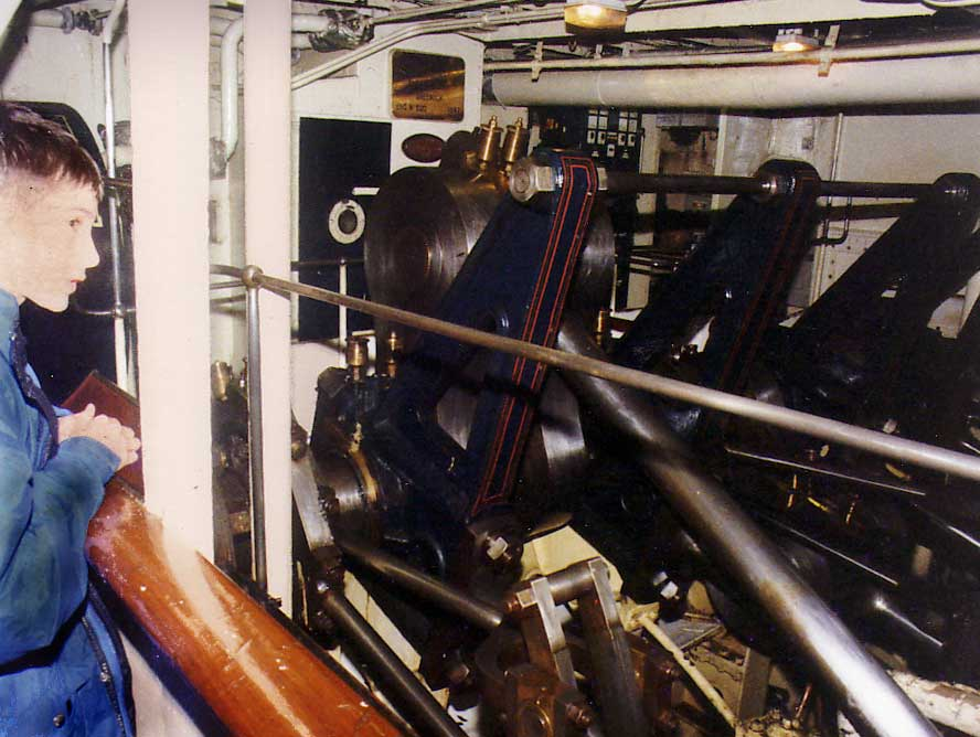 A passageway to either side of the PS Waverley's engine room allows passengers to watch the cranks and piston rods in operation.